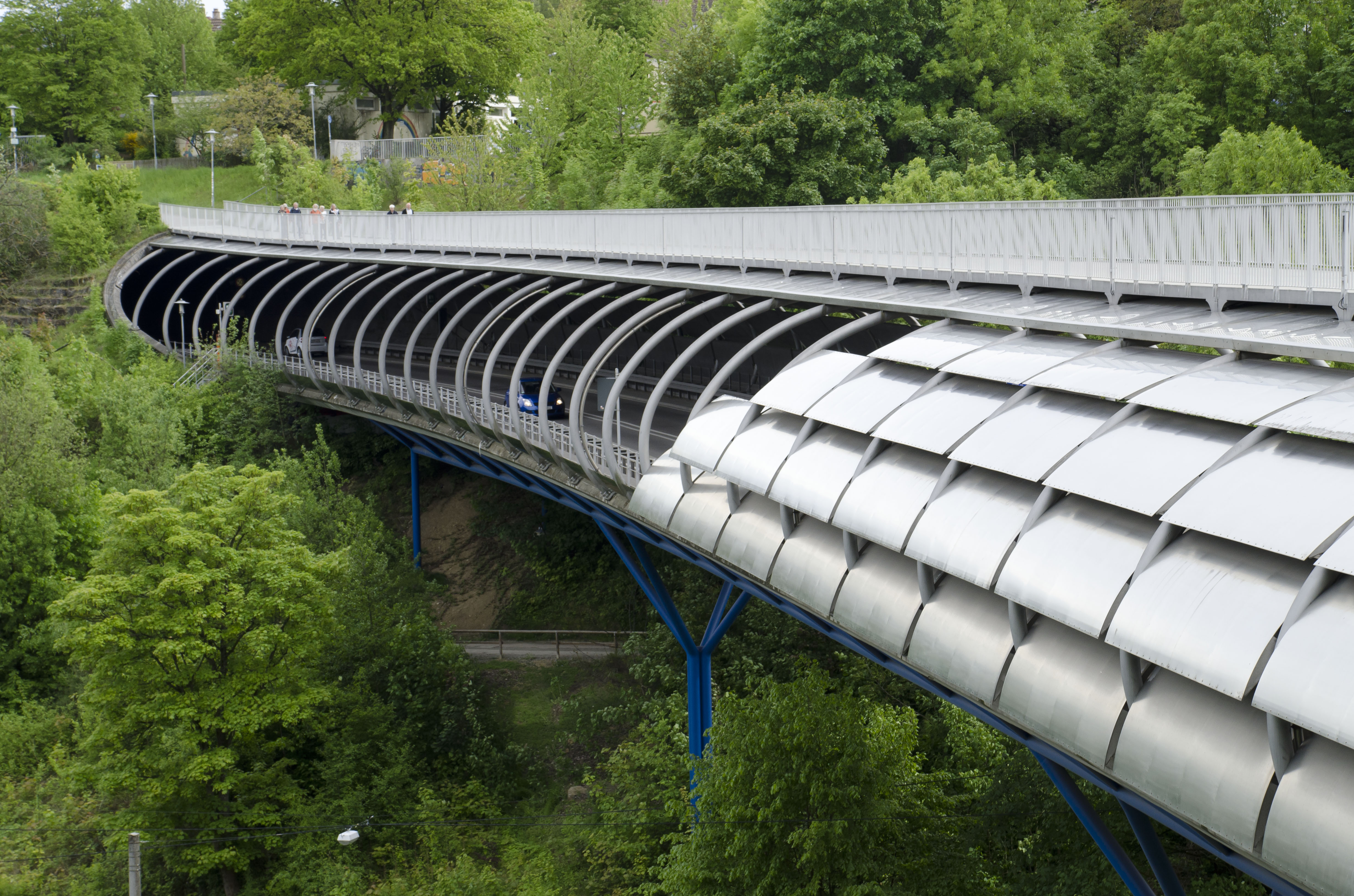 Bridge over the Nesenbach valley, Stuttgart-Vaihingen, Germany